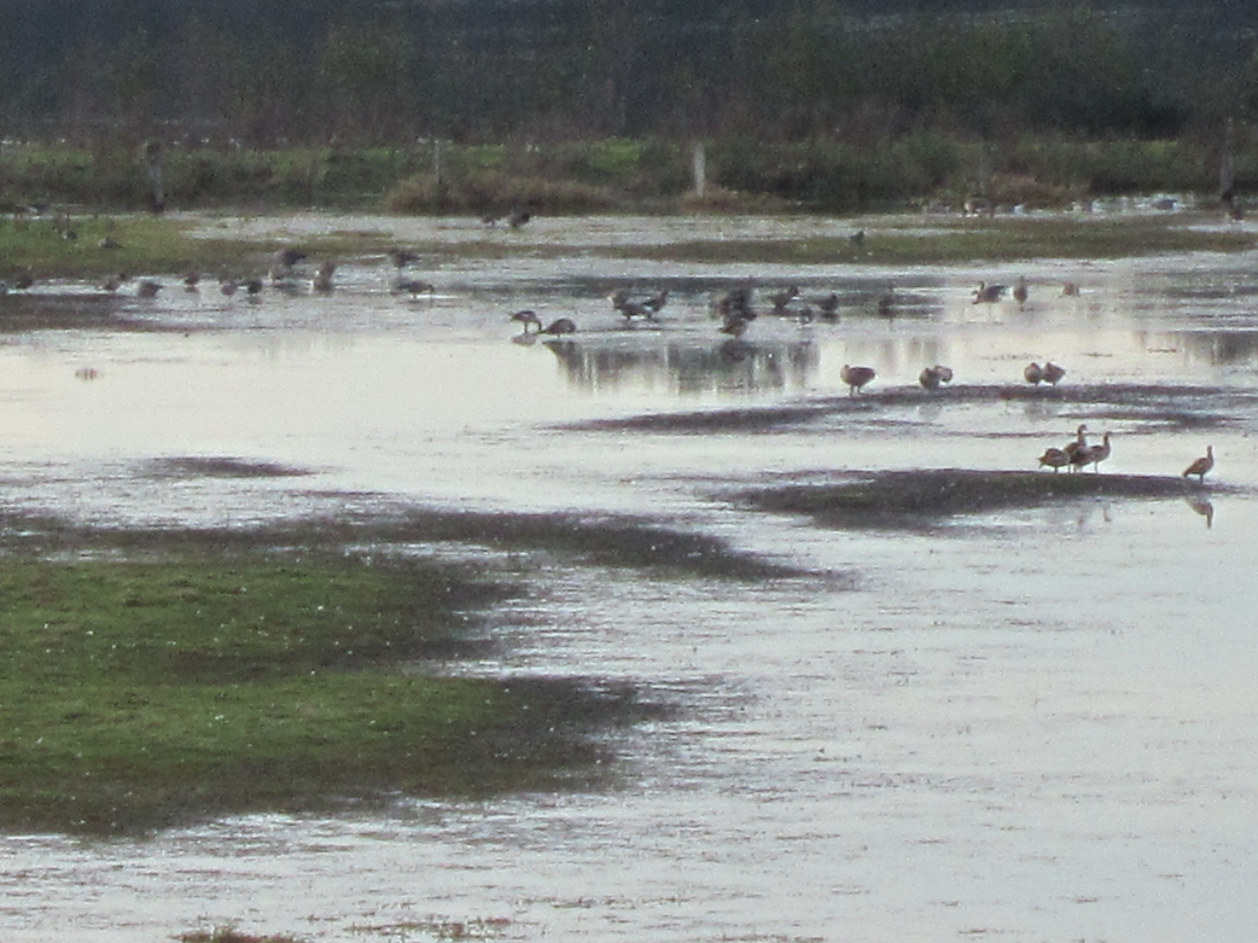 Natural reserve "Reservebecken Alfhausen-Rieste"